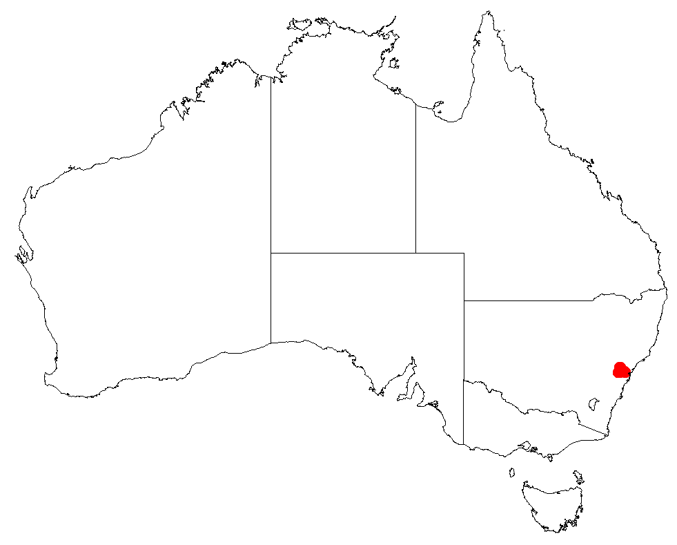 Macrozamia elegans occurrence data downloaded from Australasian Virtual Herbarium using